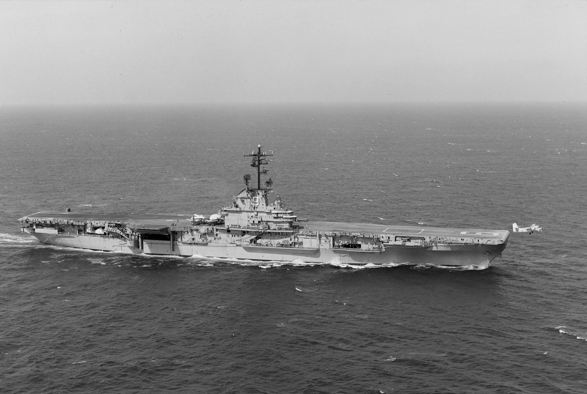 the U.S. Navy aircraft carrier USS Essex (CVS-9) launching an Grumman S-2D Tracker from Carrier Antisubmarine Air Group 60 (CVSG-60), in 1964.